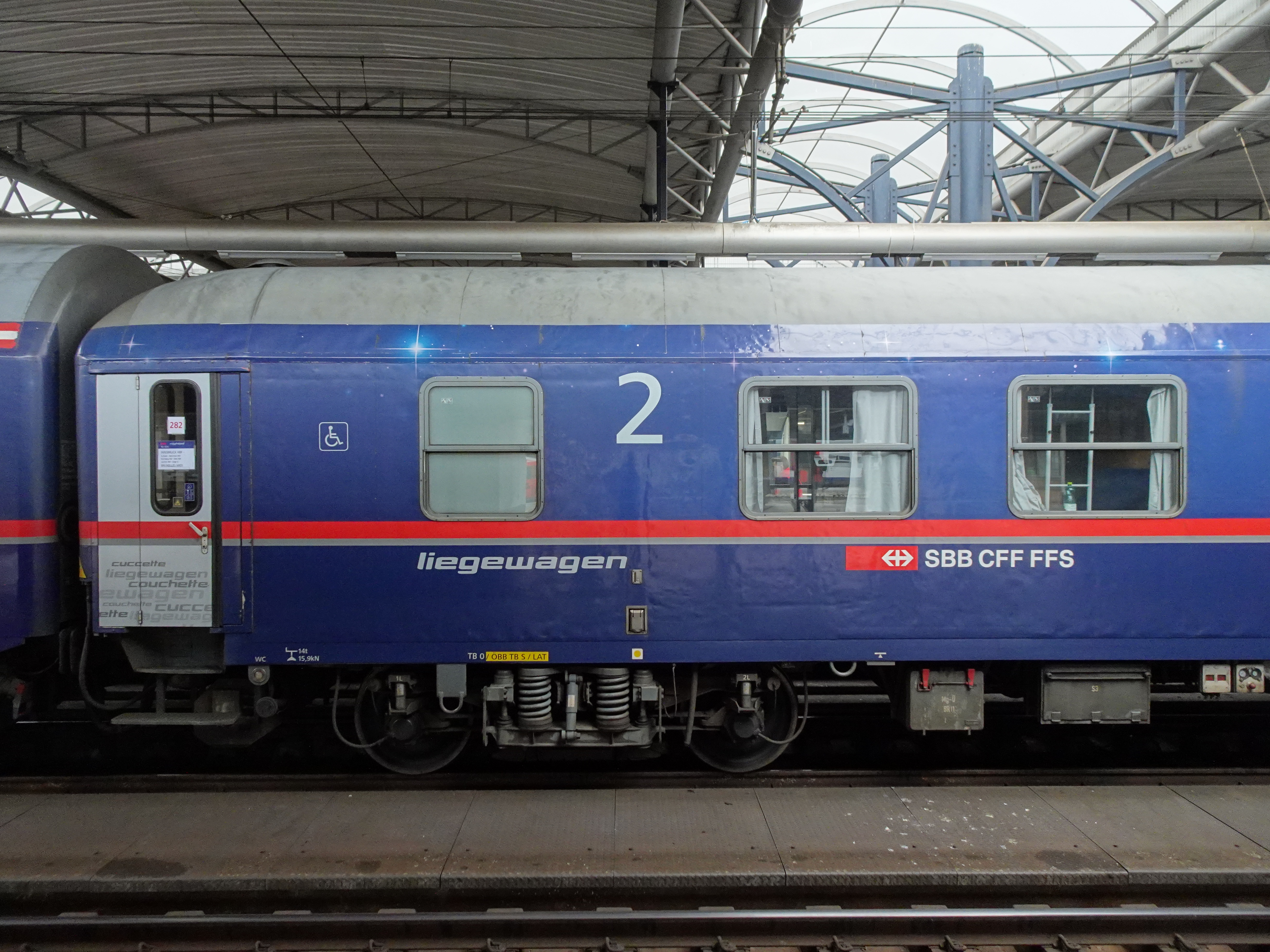 Nightjet couchette car with compartment for disabled people on Nightjet's 1st Wien / Innsbruck - Brussels commercial run.